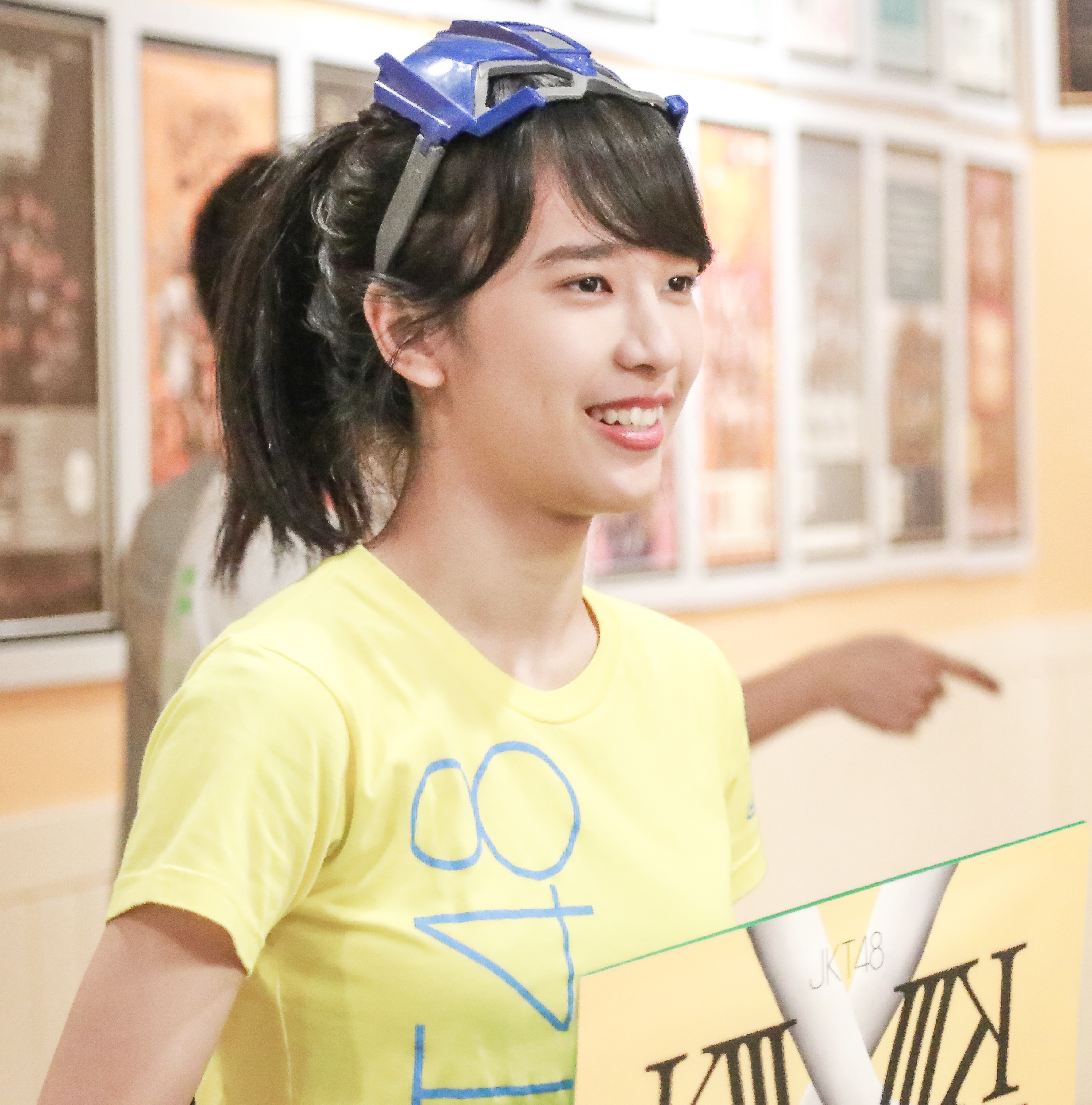 Beby Chaesara Anadilla on 5 February 2020